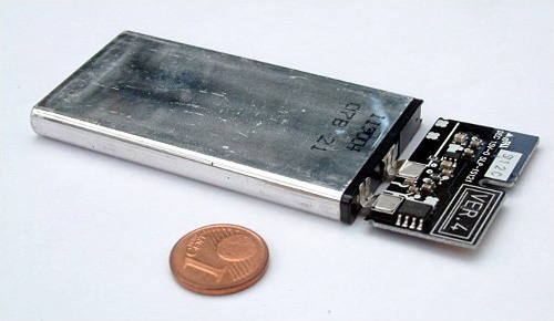 opened rechargable lipoly battery